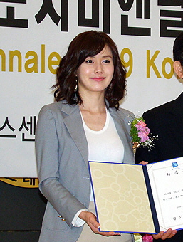 Kim Ji-soo at The 5th World Ceramic Biennale 2009 Korea press conference